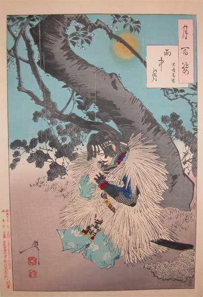 Rainy moon (Uchu no tsuki)